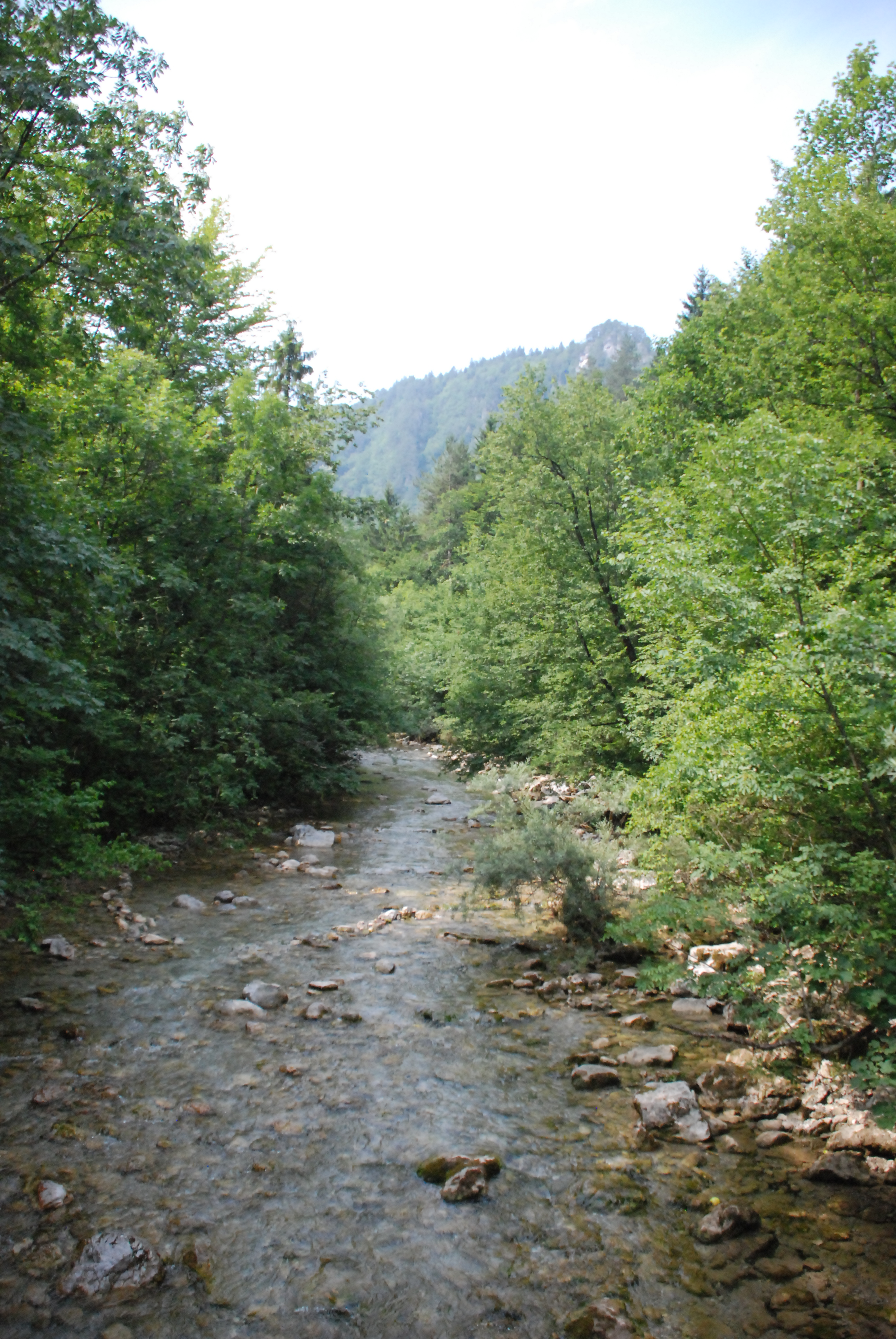 The Iška River in Iški Vintgar Gorge.